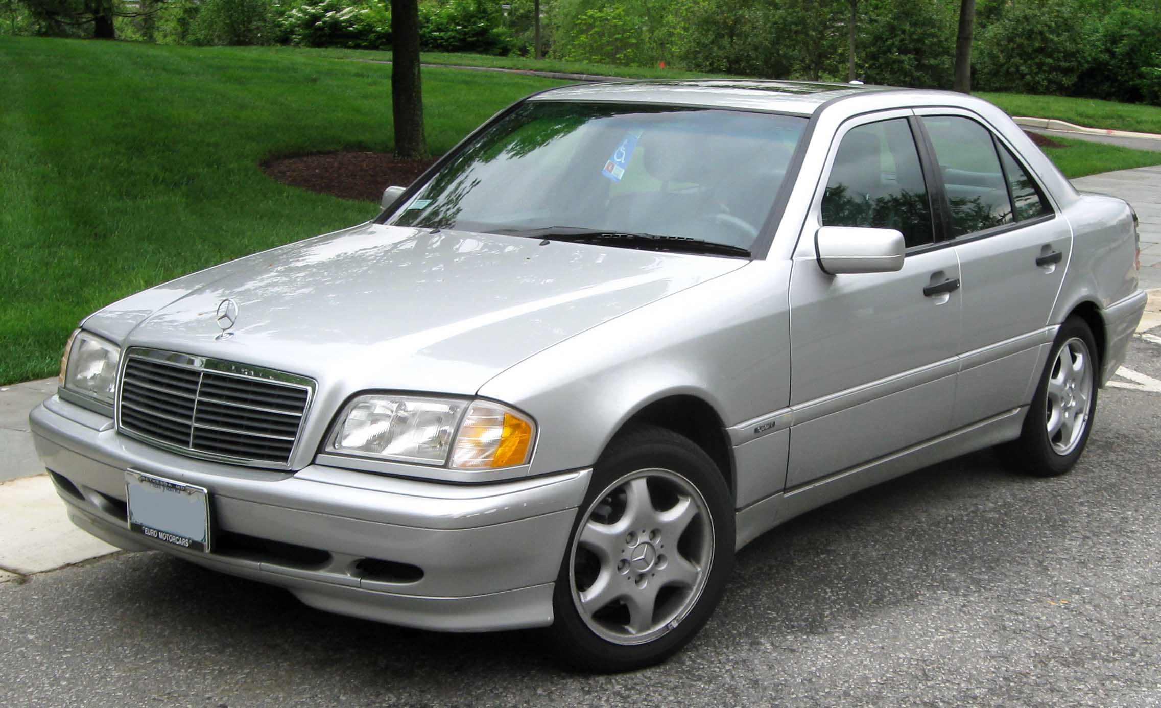 Mercedes-Benz C 280 Sport, photographed in College Park, Maryland, USA.